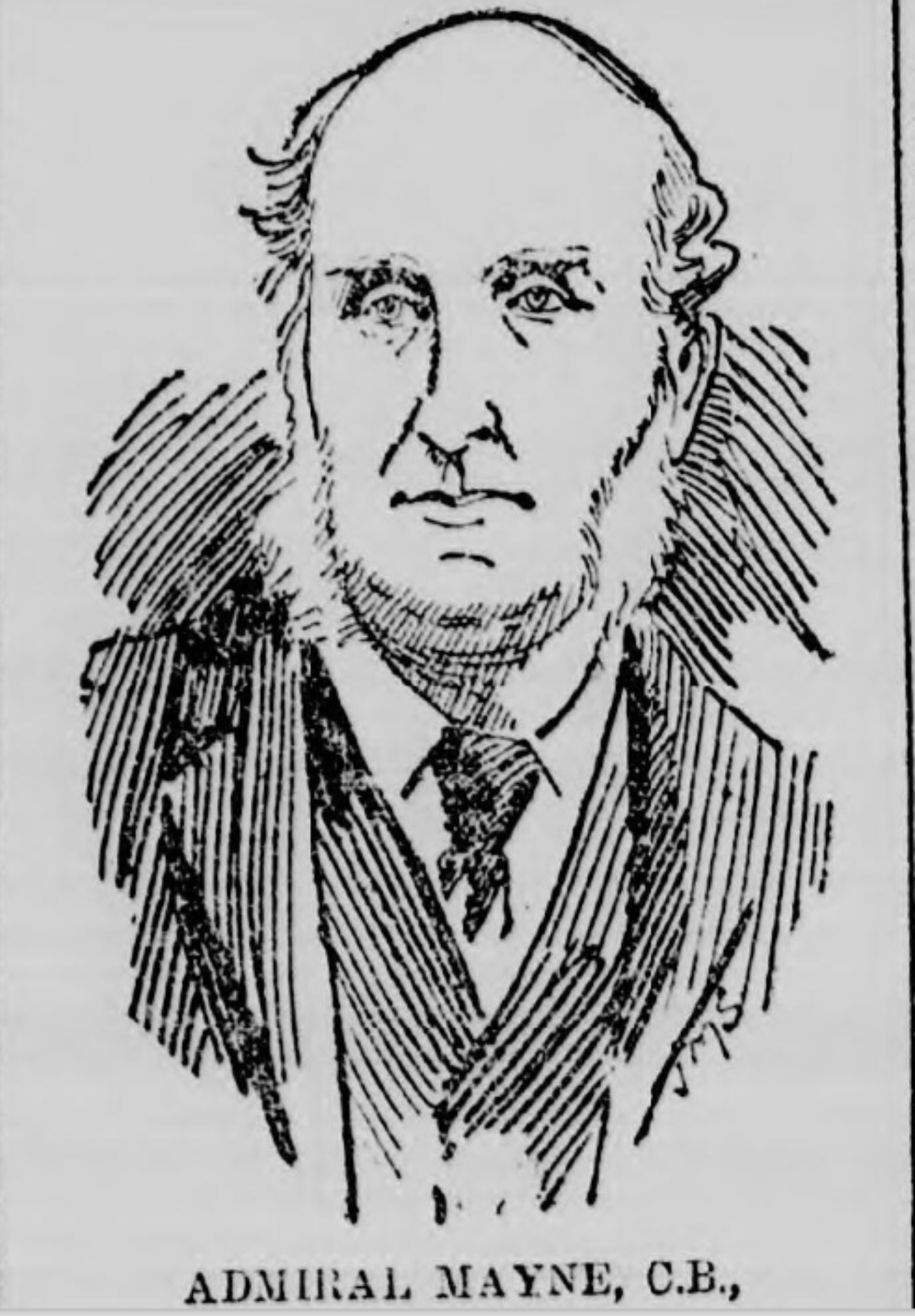 Rear-Admiral Richard Charles Mayne CB FRGS MP